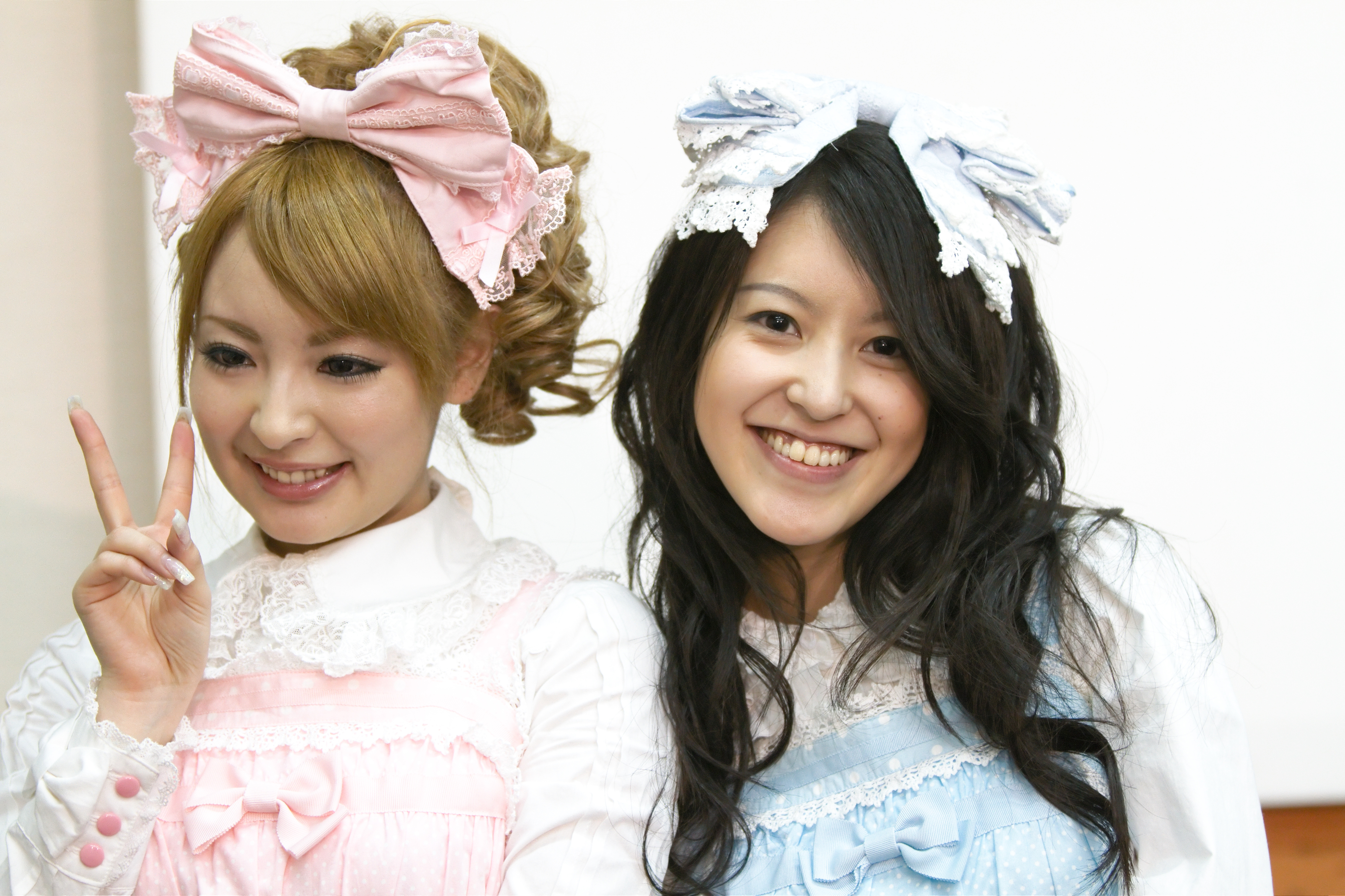 Autograph session with Jelly Beans at Japan Expo Sud 2010 (Marseille, France).